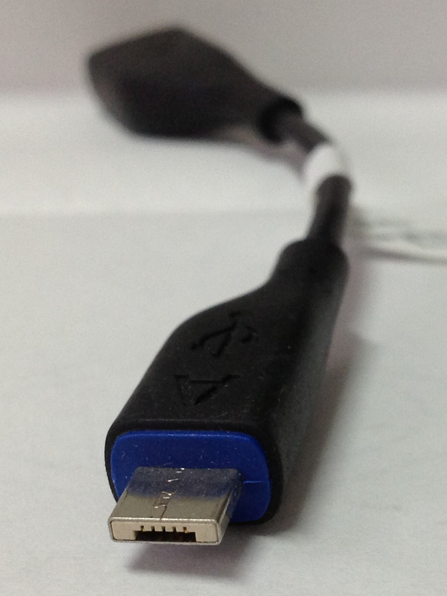 A Nokia branded Micro-A USB port